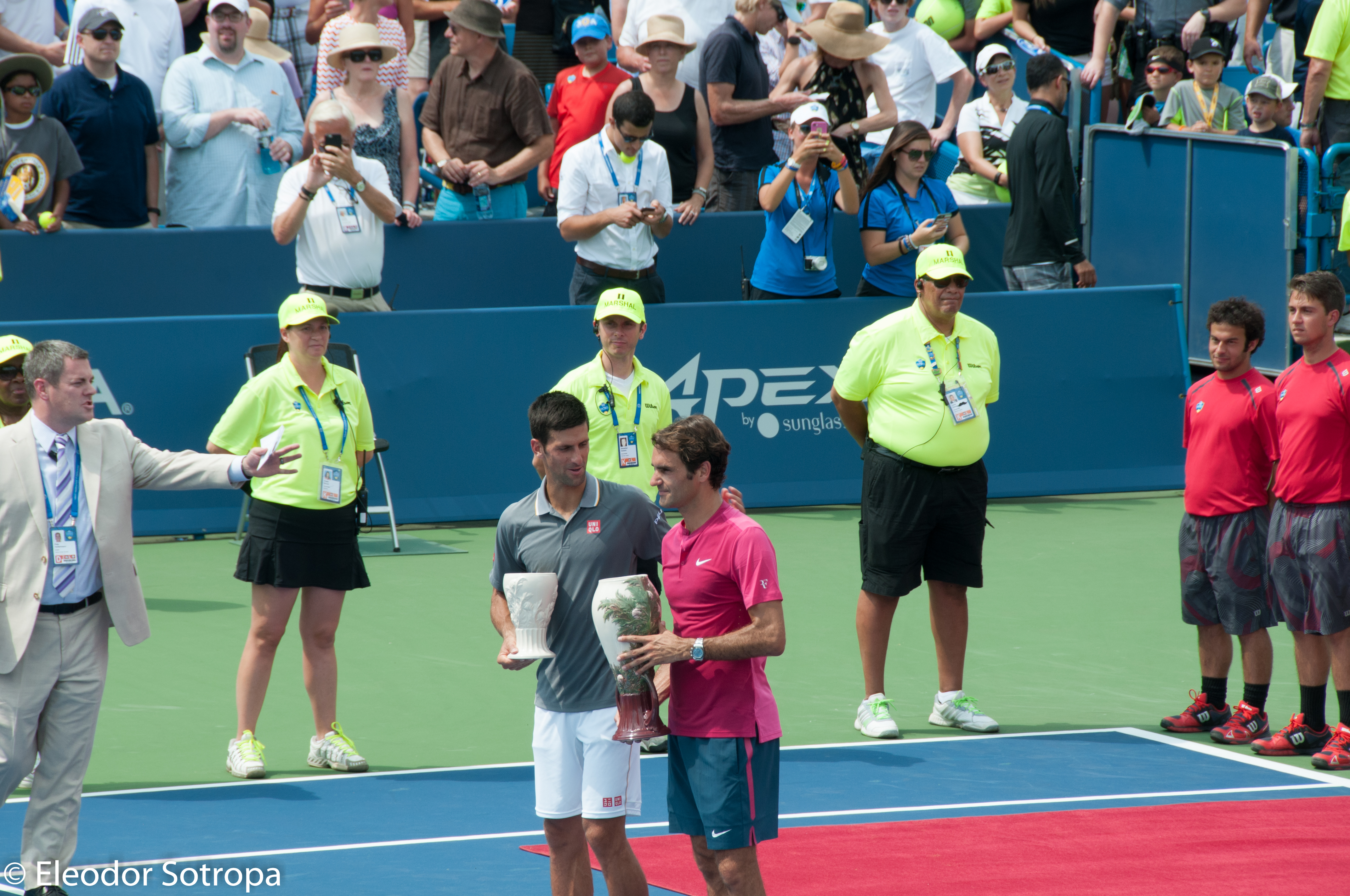 Cincinnati-Tennis-2015-ATP-WTA-150